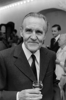 Wolfgang Schmieder on August 20 1977 at the Freiburg im Breisgau Town Hall